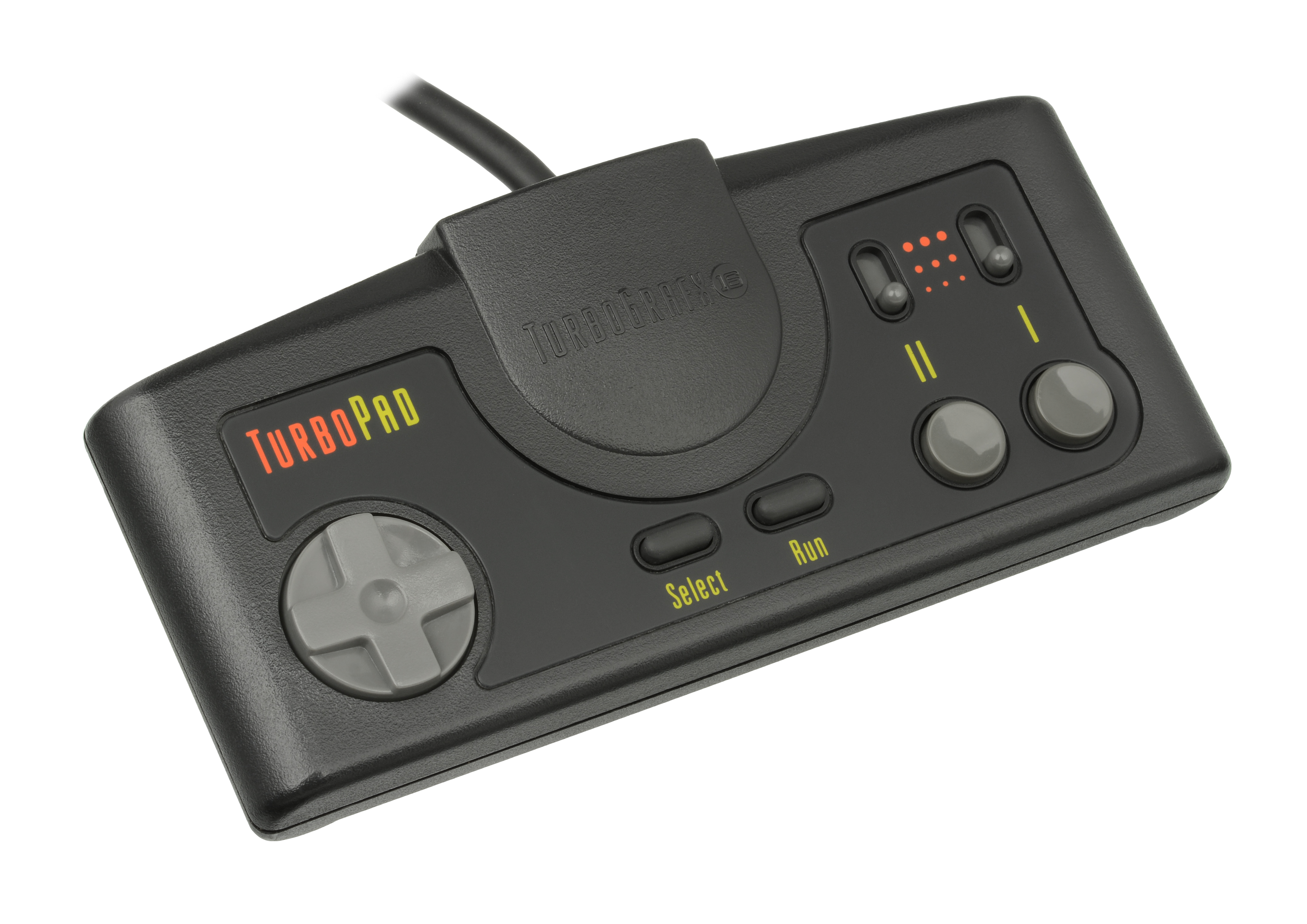 The controller for the TurboGrafx-16 video game console, originally released in 1989.